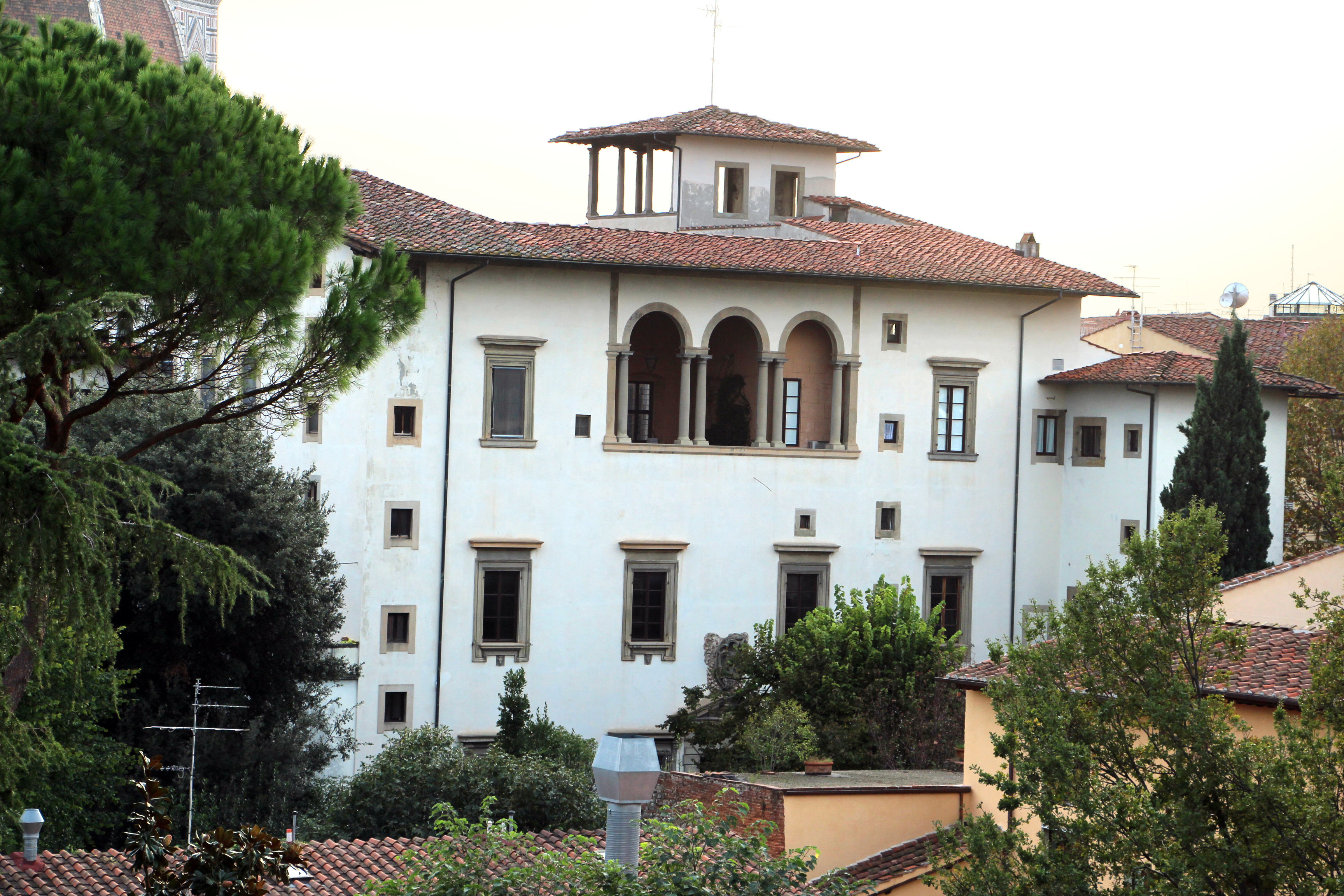 Collections of the Museo archeologico nazionale (Florence)